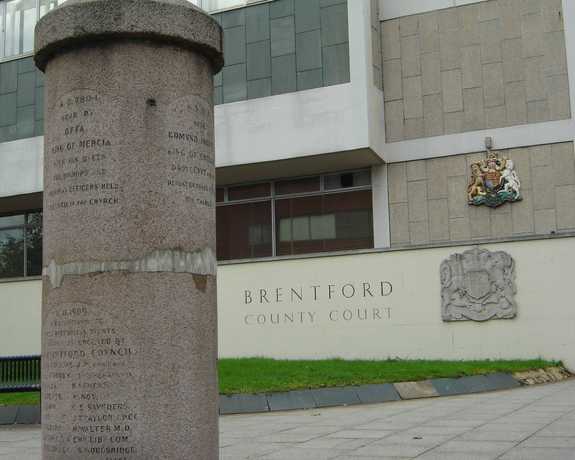 Exterior of Brentford County Court, the site of a ford over the river Brent, Brentford has been the site of many battles thoughout British history and these are in part commemorated by the column seen infront of the court house